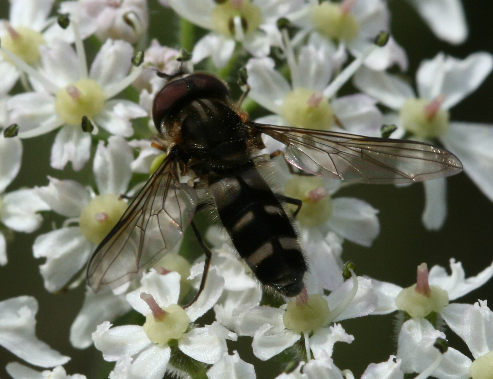 Pease Dean, Berwickshire, Scotland.